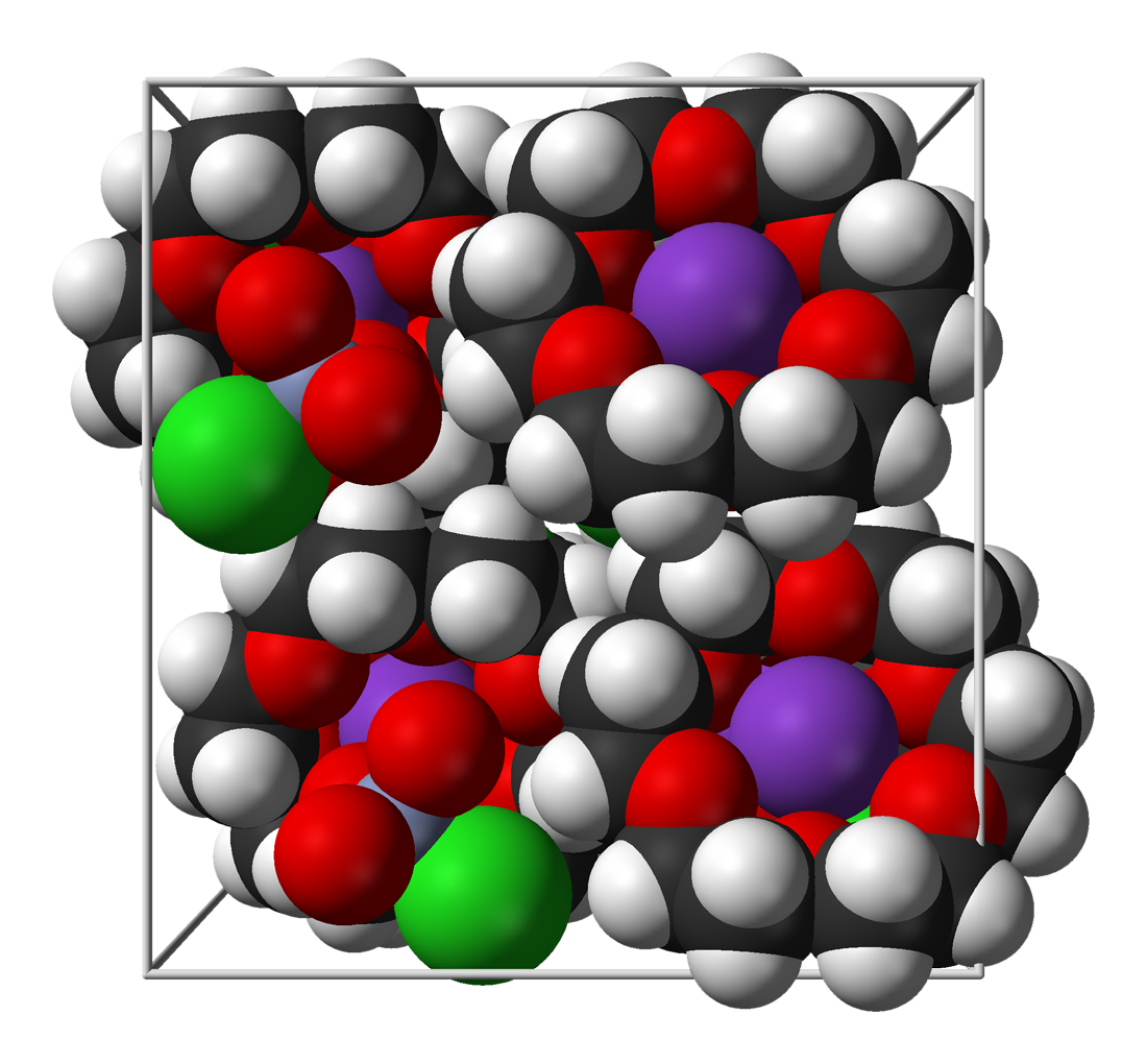 Space-filling model of the unit cell of (18-crown-6)potassium chlorochromate, [K(C12H24O6)][CrClO3]. X-ray diffraction data from S. A. Kotlyar, R. I. Zubatyuk, O. V. Shishkin, G. N. Chuprin, A. V. Kiriyak and G. L. Kamalov (February 2005). "(18-Crown-6)potassium chlorochromate". Acta. Cryst. E61 (2): m293-m295.